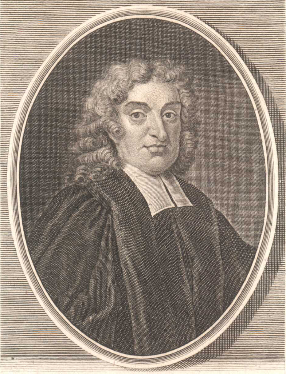 English astronomer John Flamsteed